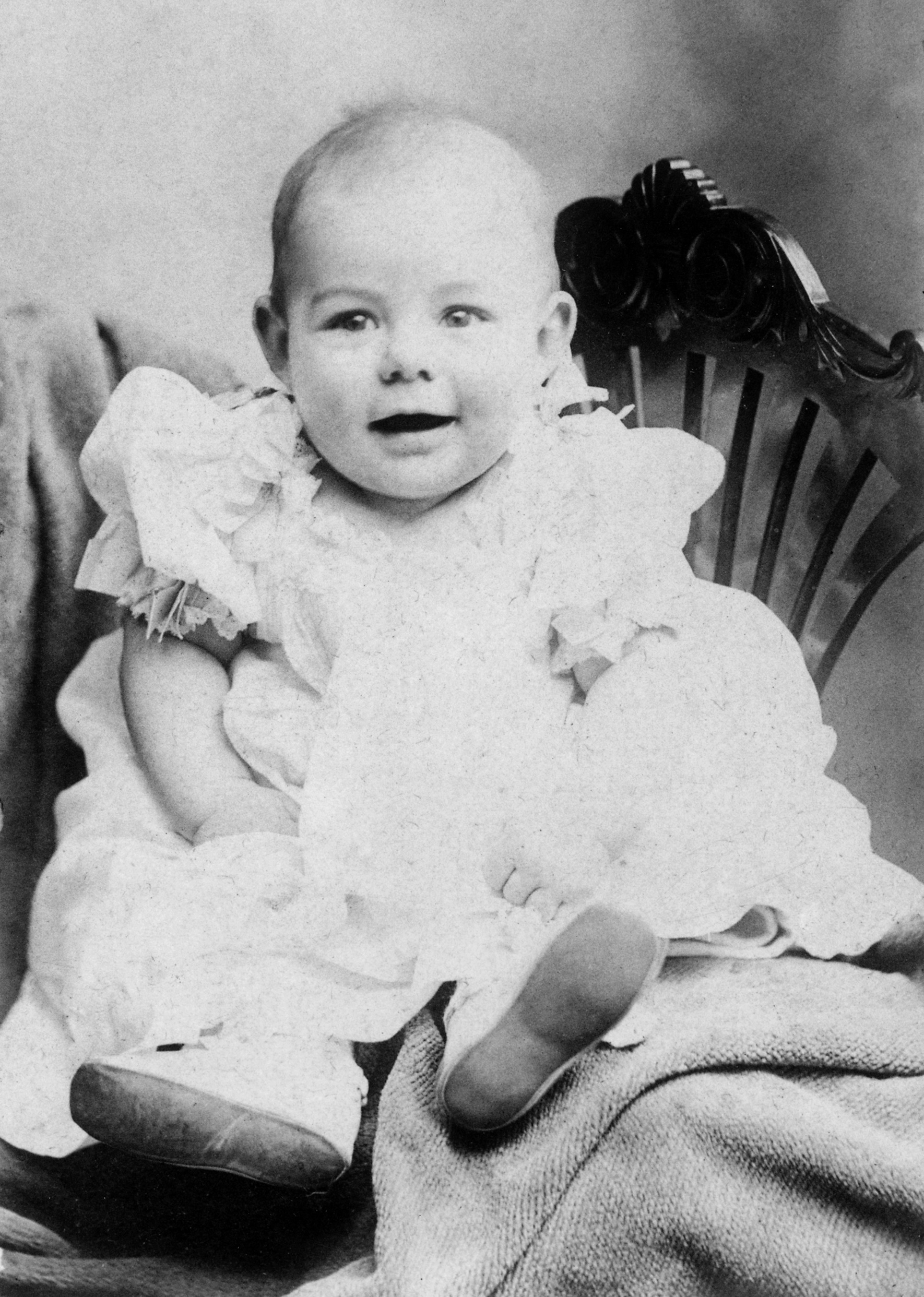 Photograph of Ernest Hemingway as a baby.